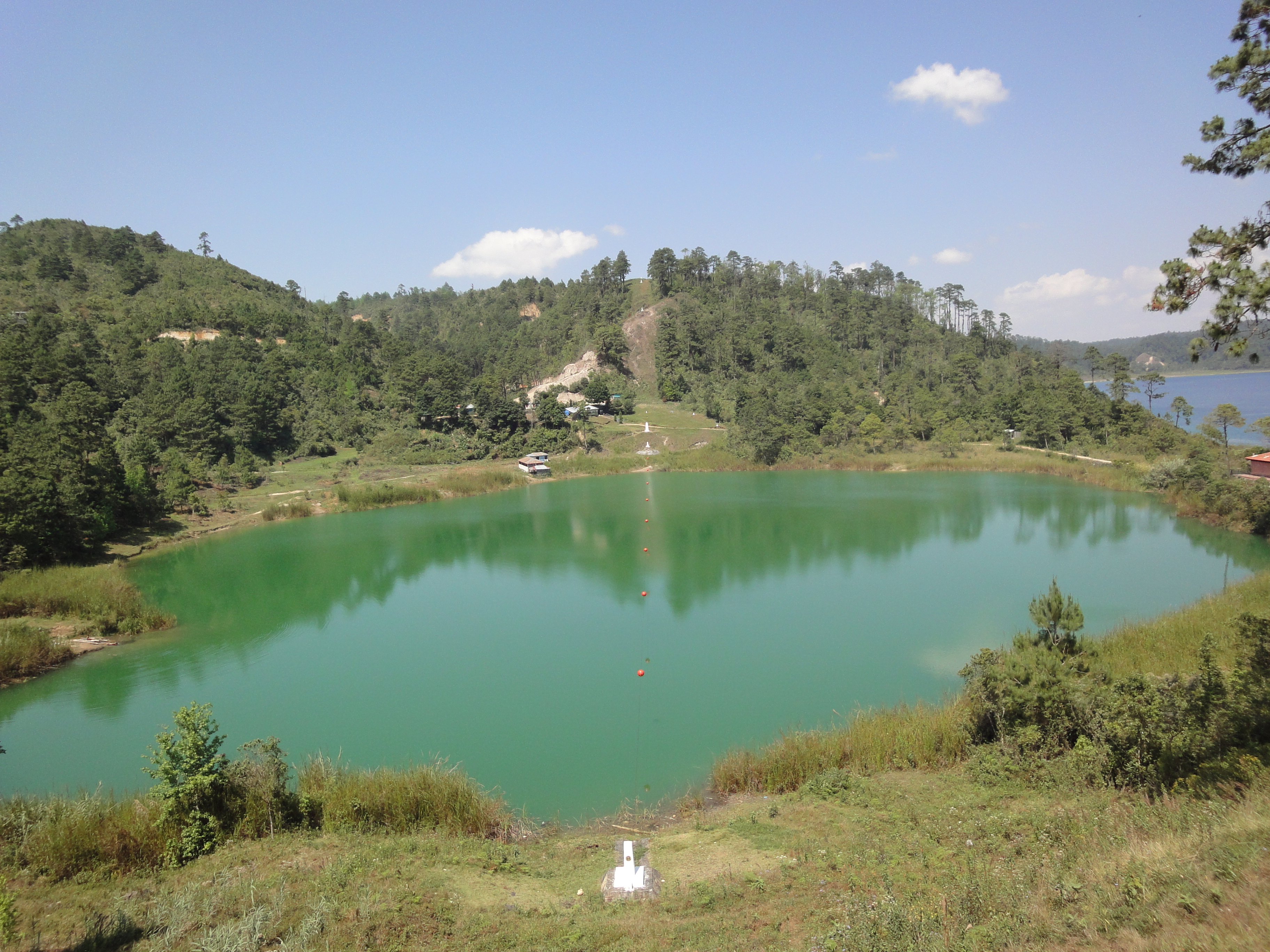 International border of Guatemala and Mexico: Guatemala on the left, Mexico on the right (in Lagunas de Montebello National Park). Taken in Lagunas de Montebello, Municipality of Nentón, Huehuetenango department, Guatemala. Geo-coordinates: N 16.07385 W 91.68035